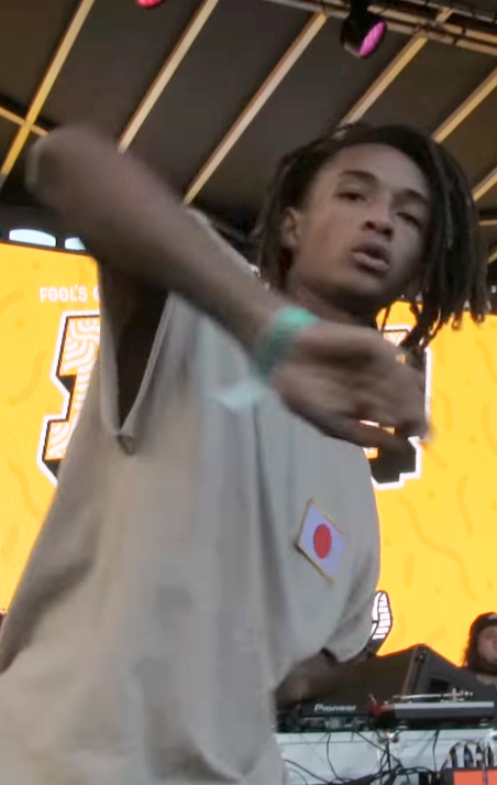 Jaden Smith in August 2015